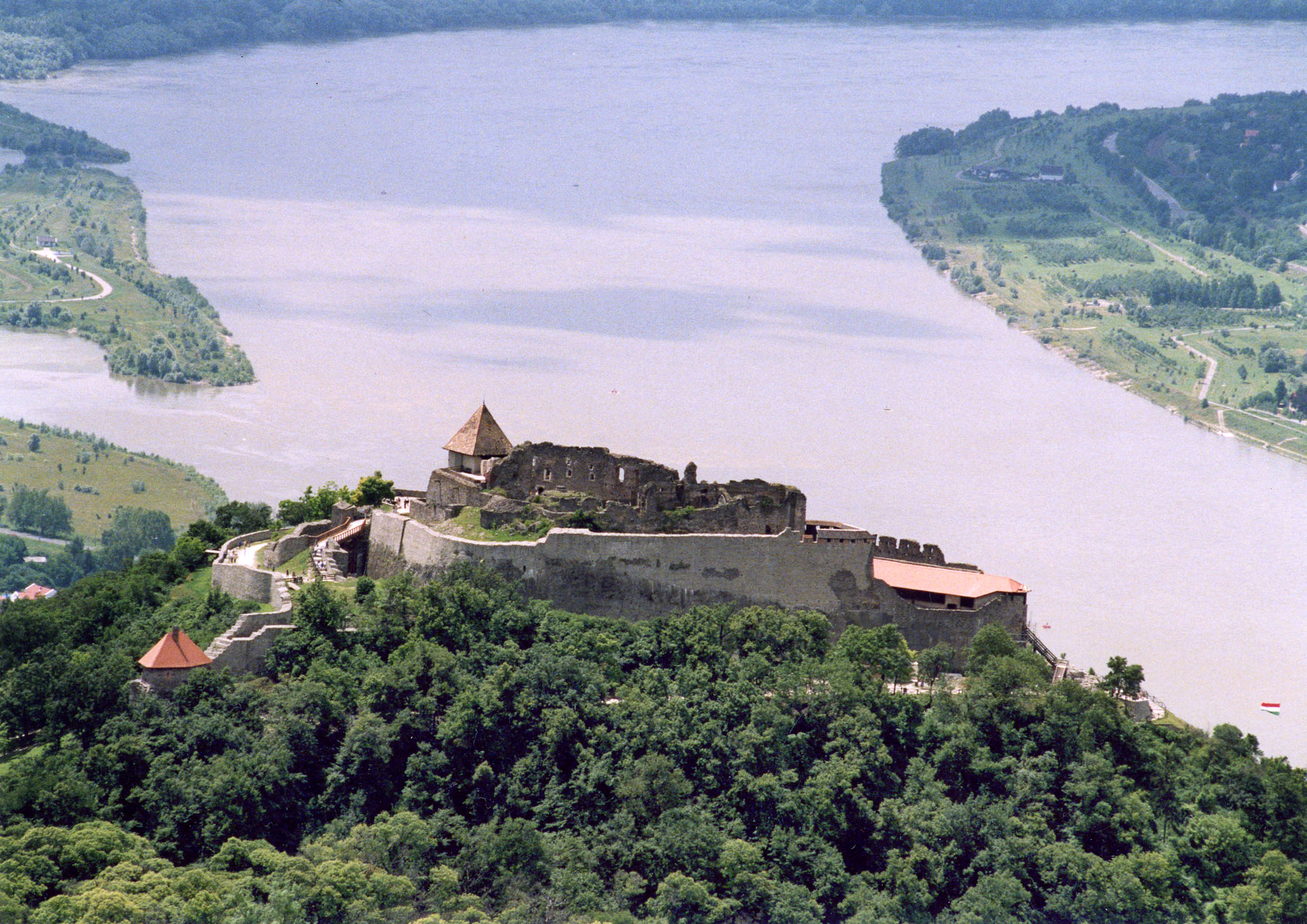 Dunakanyar - Danube, Hungary, aerial photography